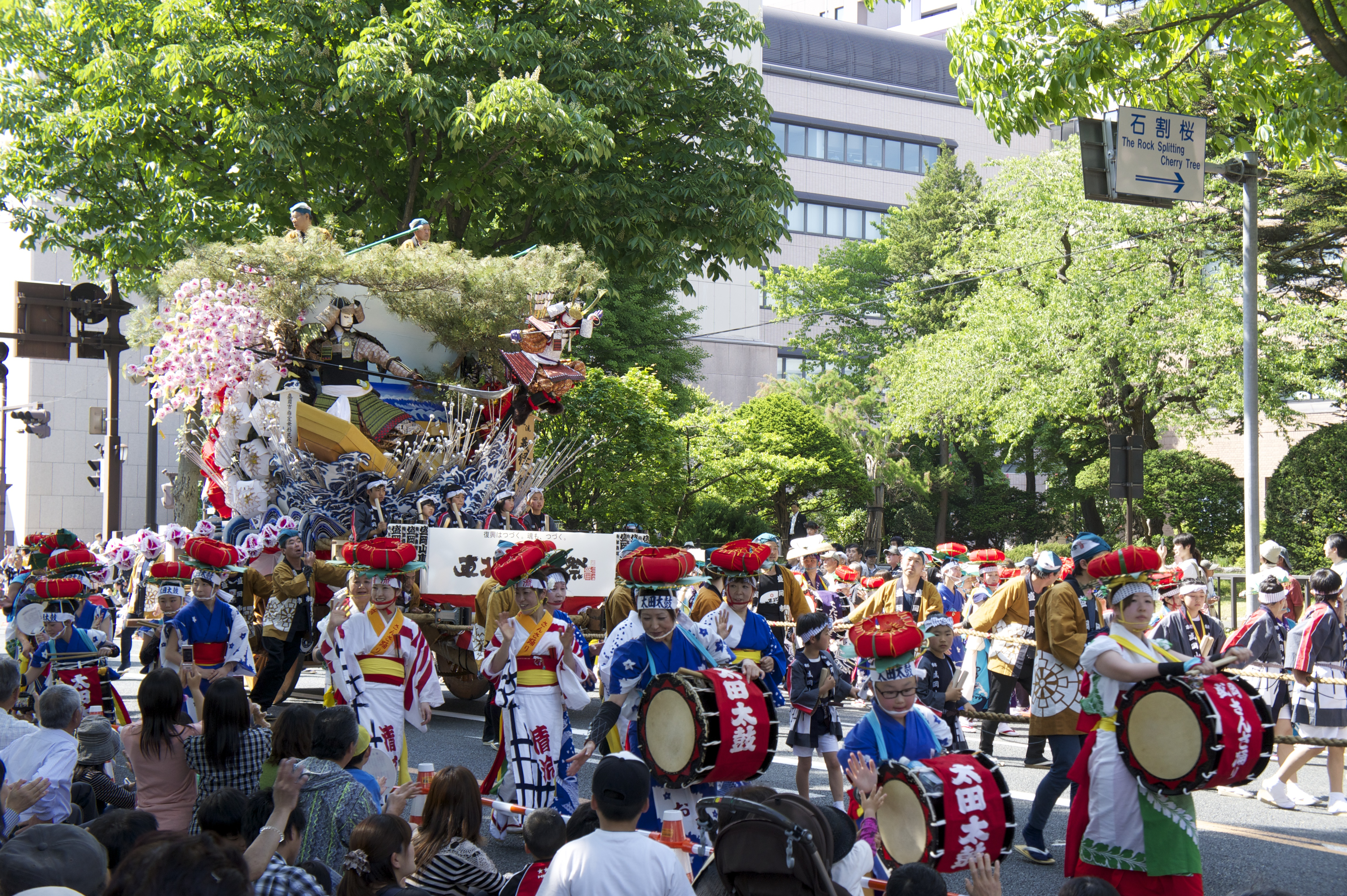 Tohoku Rokkonsai Festival in Morioka.